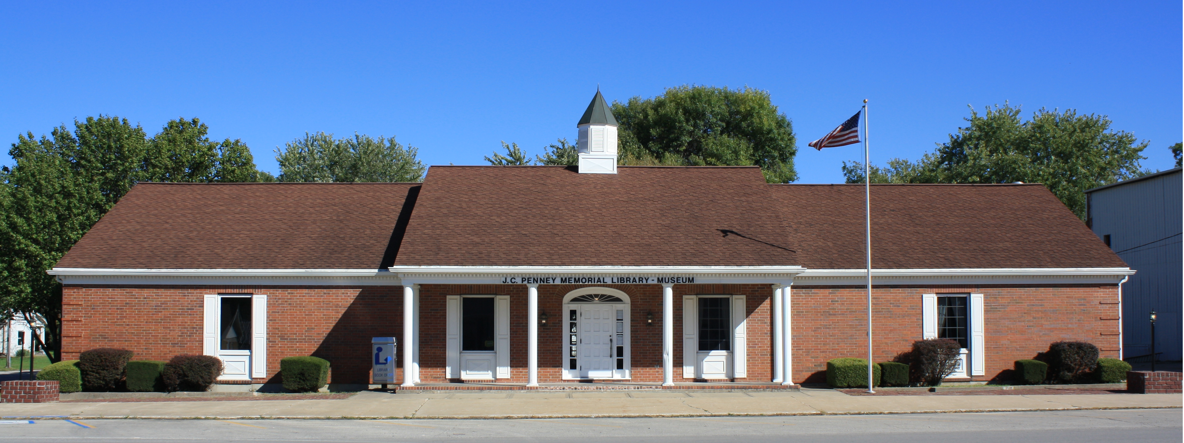 JC Penny Library, Hamilton, MO